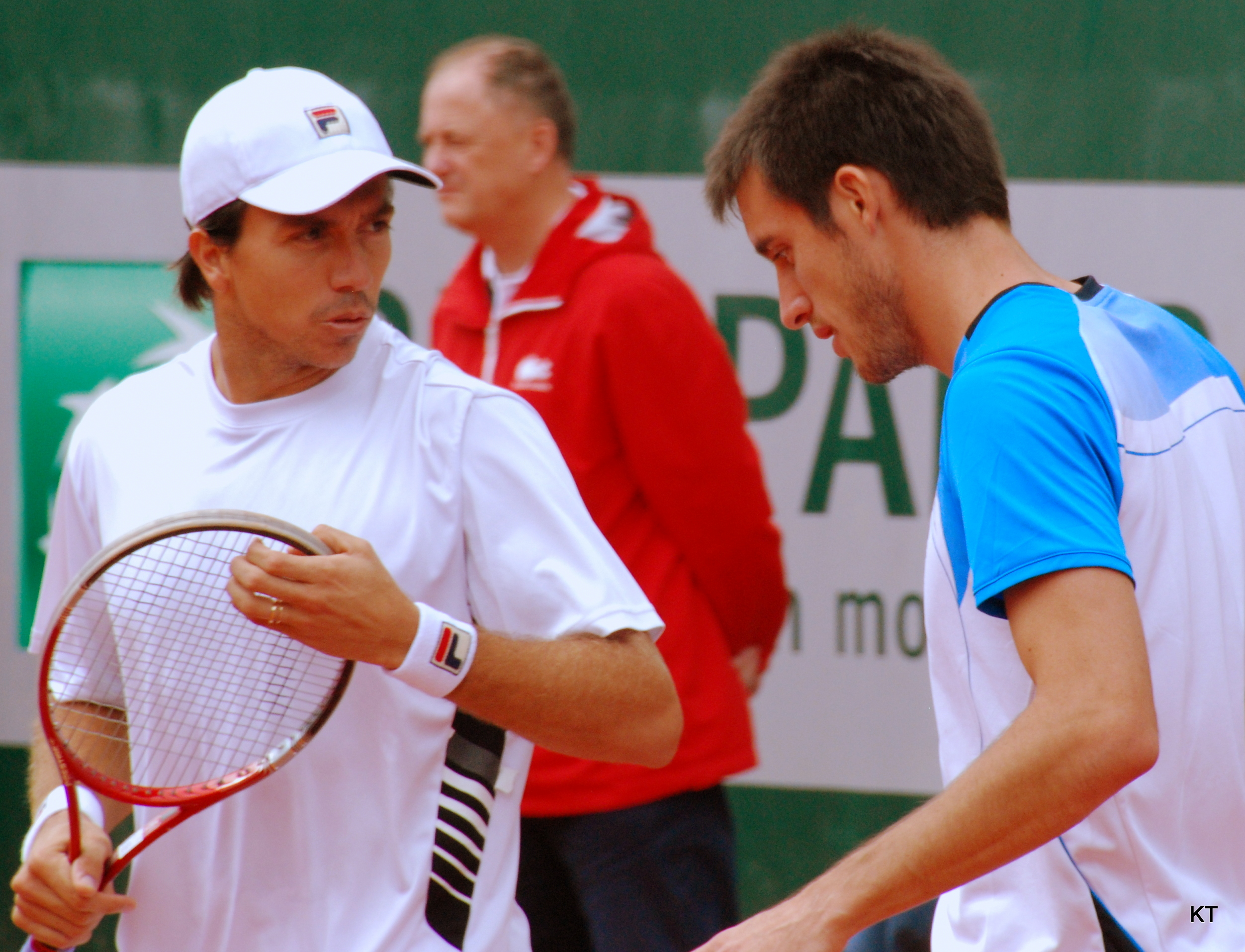 Charly Berlocq & Leonardo Mayer